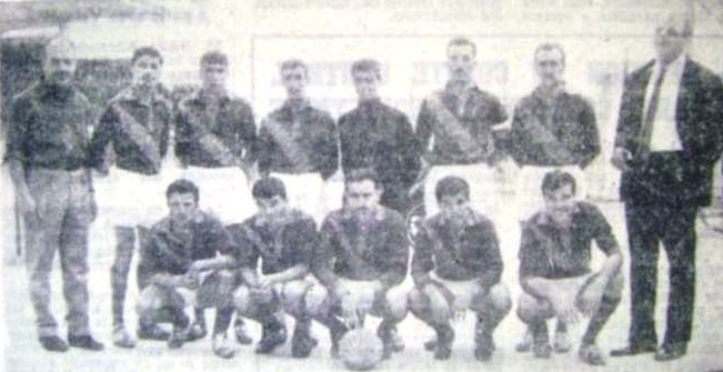 JS Kabylie team before classico against MC Alger on 1963 spring. From left to right : Standing : Hamoutène (entraineur) - Abderrahmane Cherrak - Zeghdoud - Merad - Belahsen - Haouchine - Abtouche (président) Squatting : Ouhabi - Lakhdari - Abbes - Baidi - Abdelazziz Cherrak